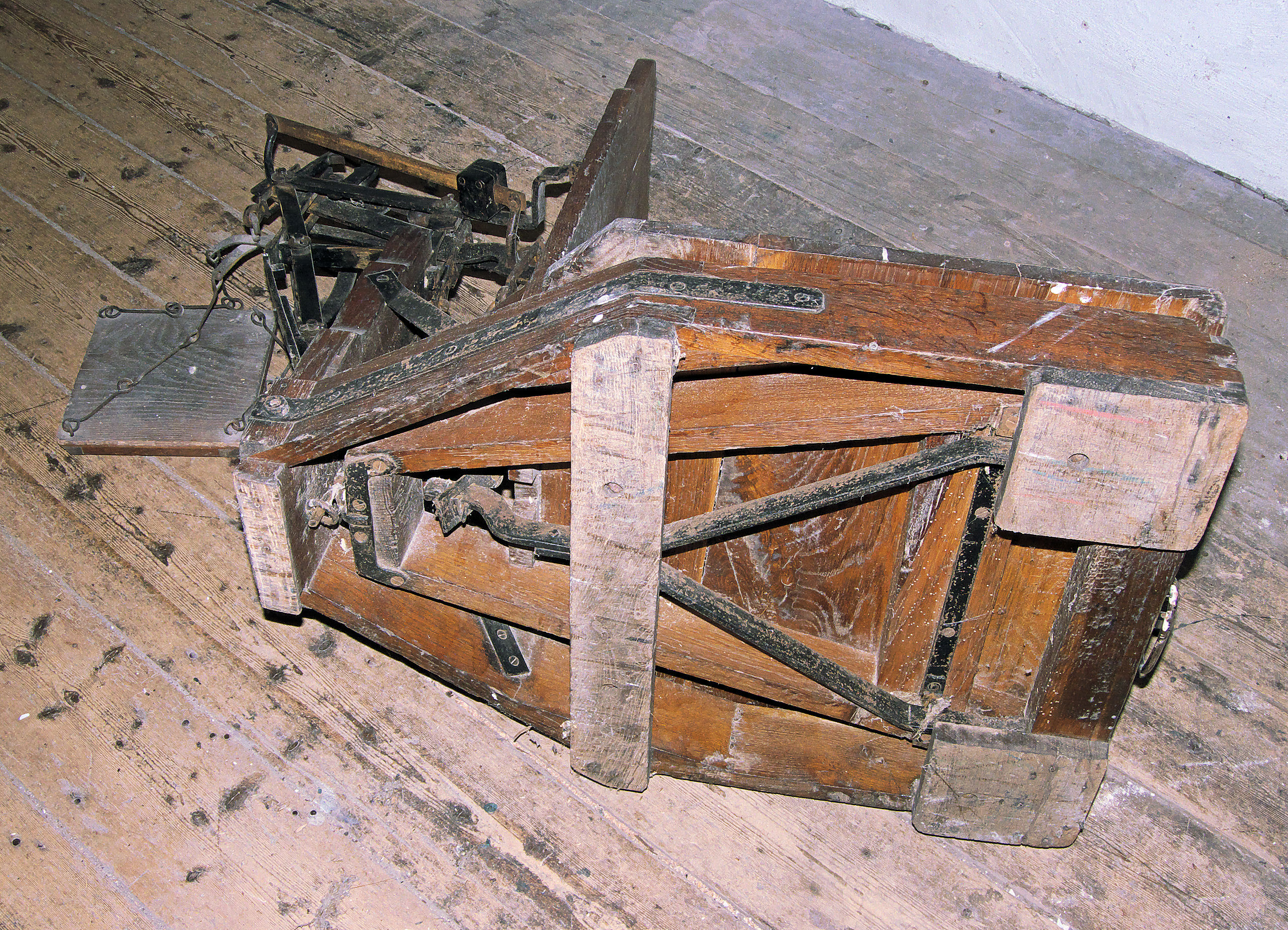 Weighing scale